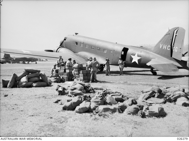 Loading DC-2 VH-CCG with supplies for the troops at Kokoda